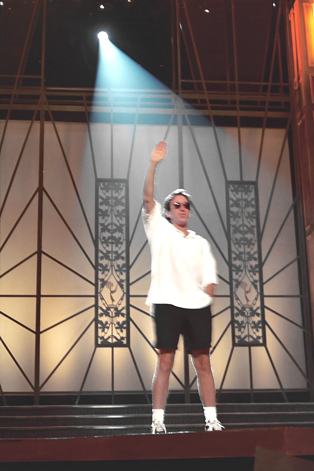 1994 Emmy Awards NOTE: Permission granted to copy, publish, broadcast or post any of my photos, but please credit "photo by Alan Light" if you can. Thanks. Scanned from the original 35MM film negative.